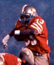 San Francisco 49ers running back Roger Craig rushing the ball during Super Bowl XIX.